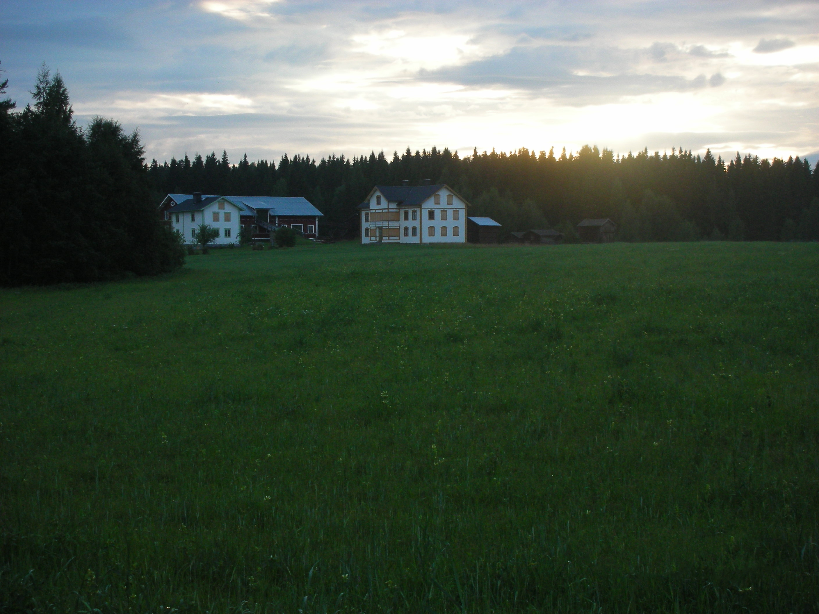 own